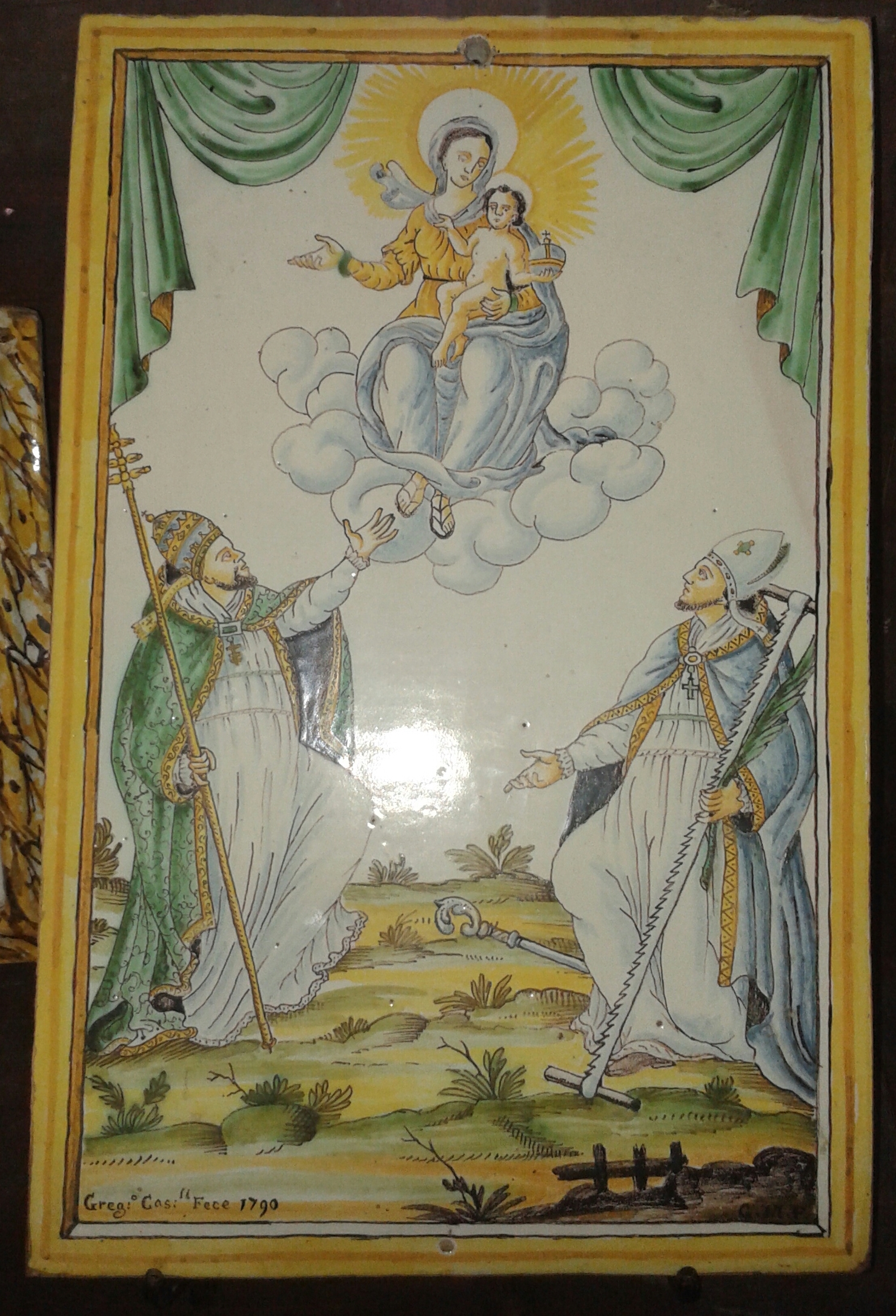 Targa votiva con la madonna col bambino santo papa e san Crispolto, Giovanni Meazzi, 1780